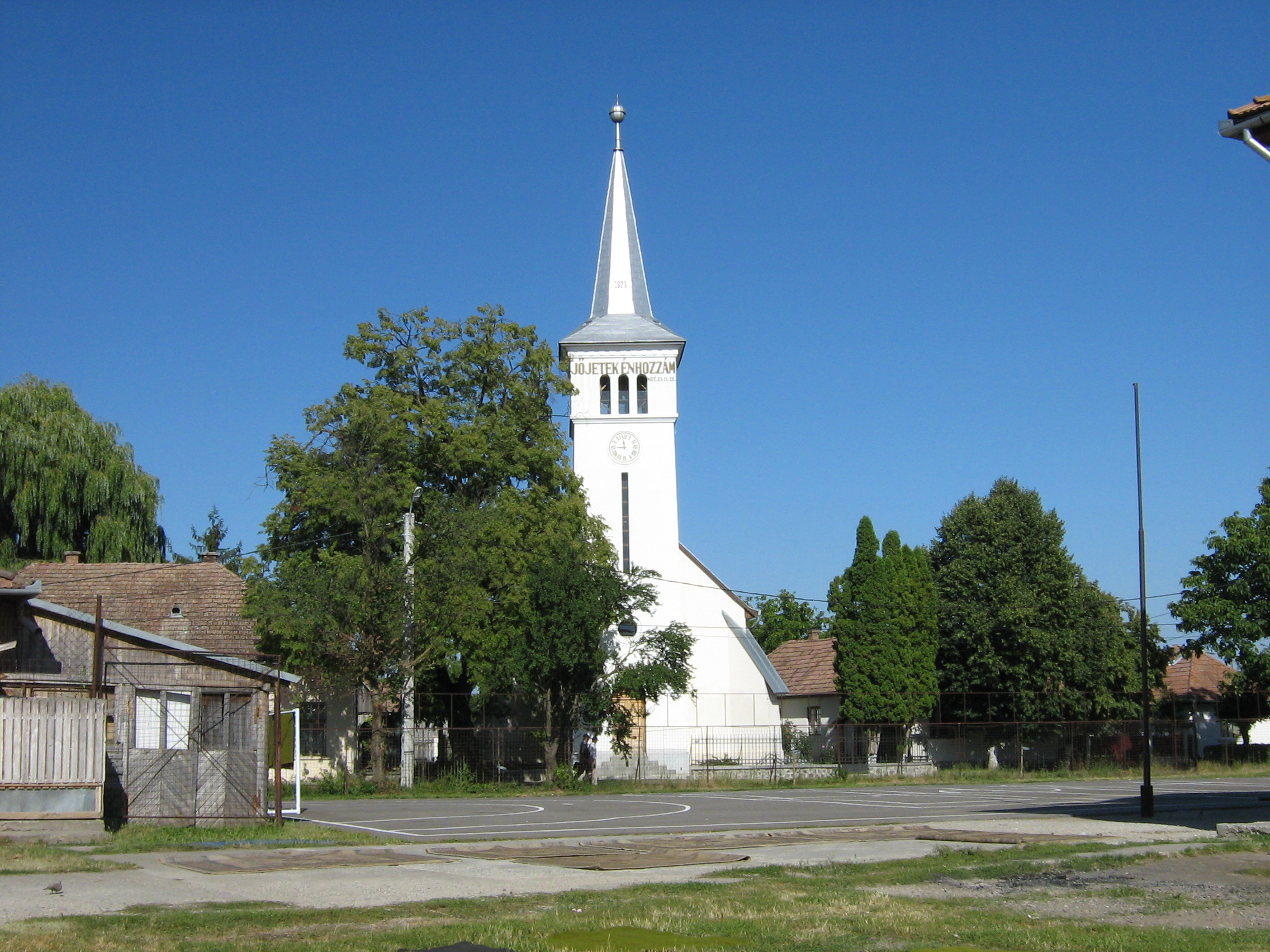 Reformed church in Marosszentanna